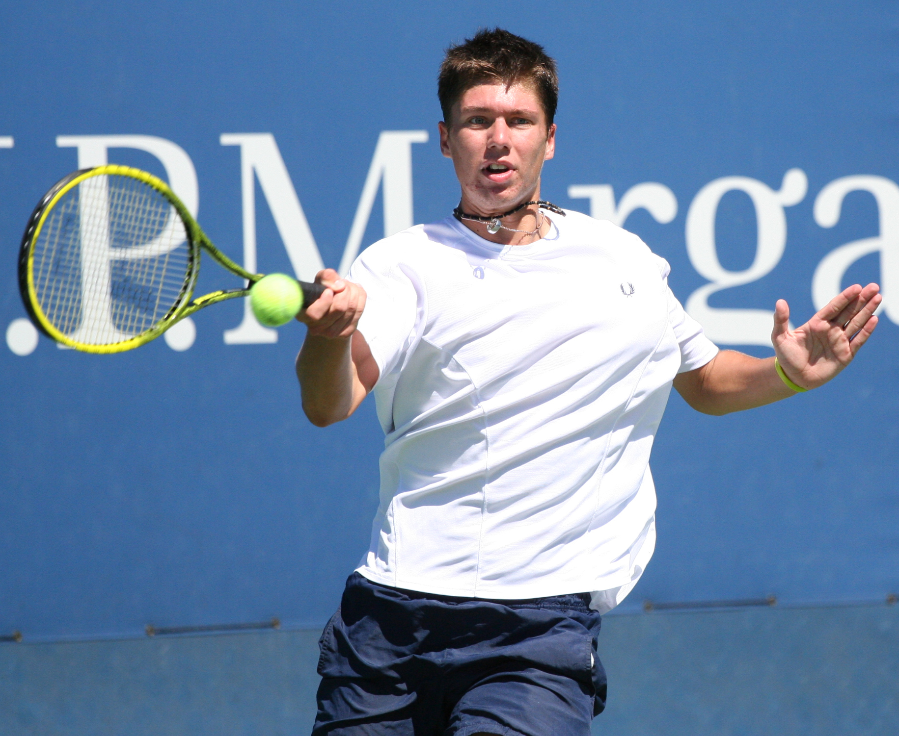 U.S. Open Juniors Sept. 5, 2010